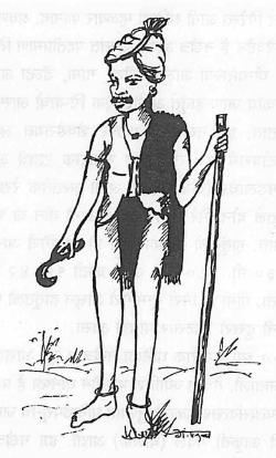 dhangar,kv